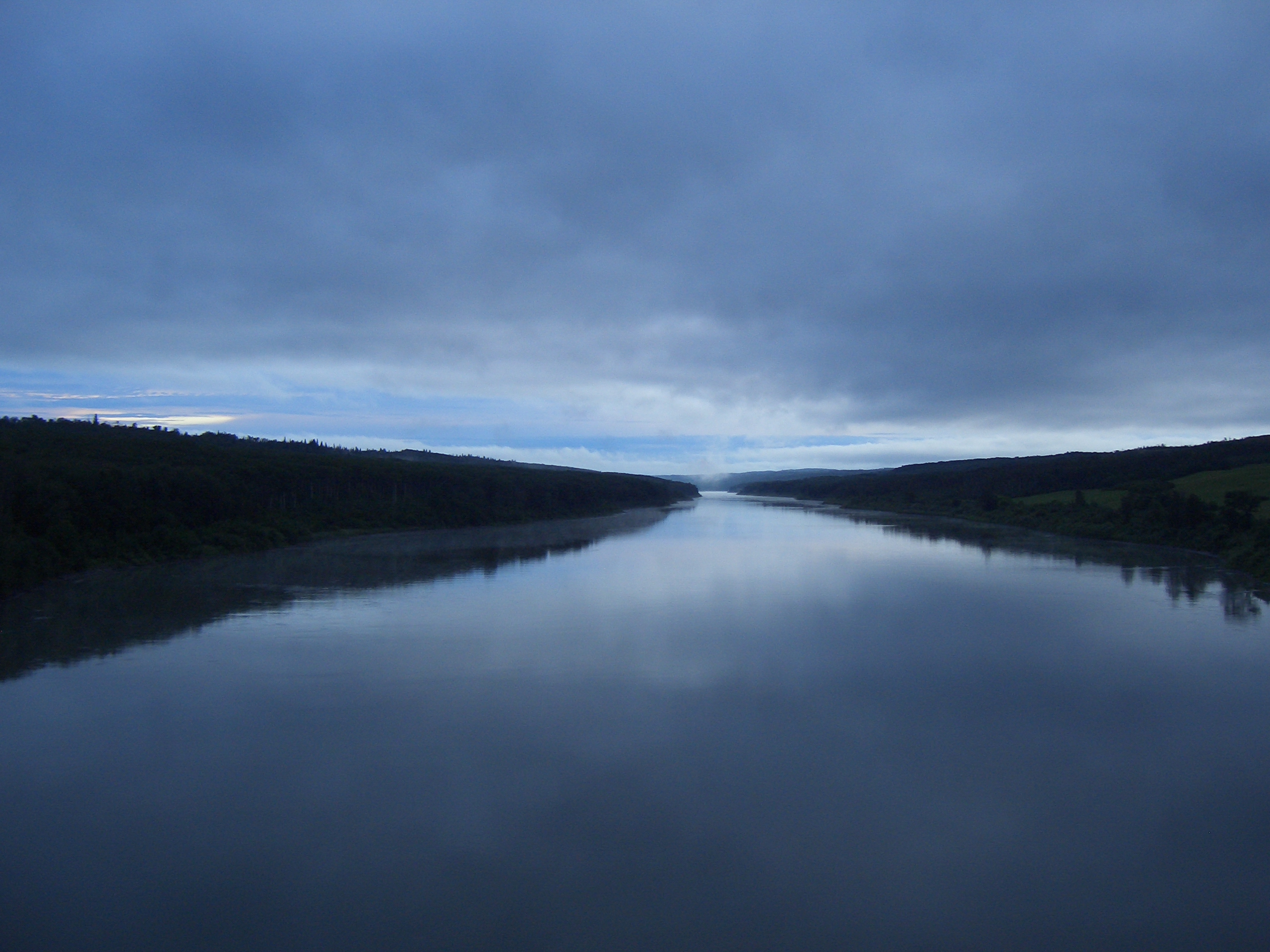 North Saskatchewan River at dusk. Taken by Evan Shymko. 5 minutes north of Myrnam, Alberta, CA.